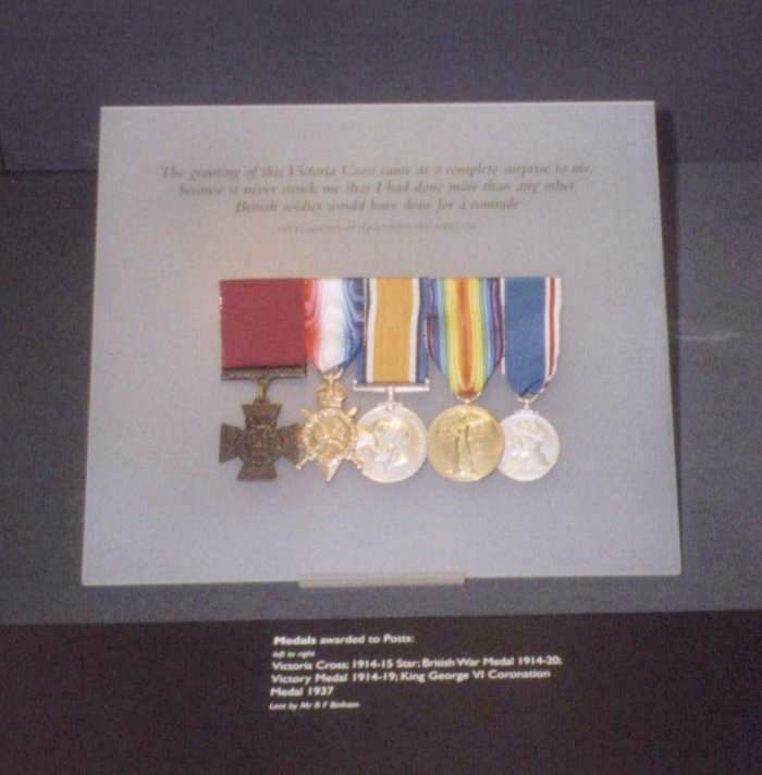 Photo of F.W.O. Pott's medal collection at the Imperial War Museum. Submitted by Antoni Chmielowski, 5 Dec 2000.